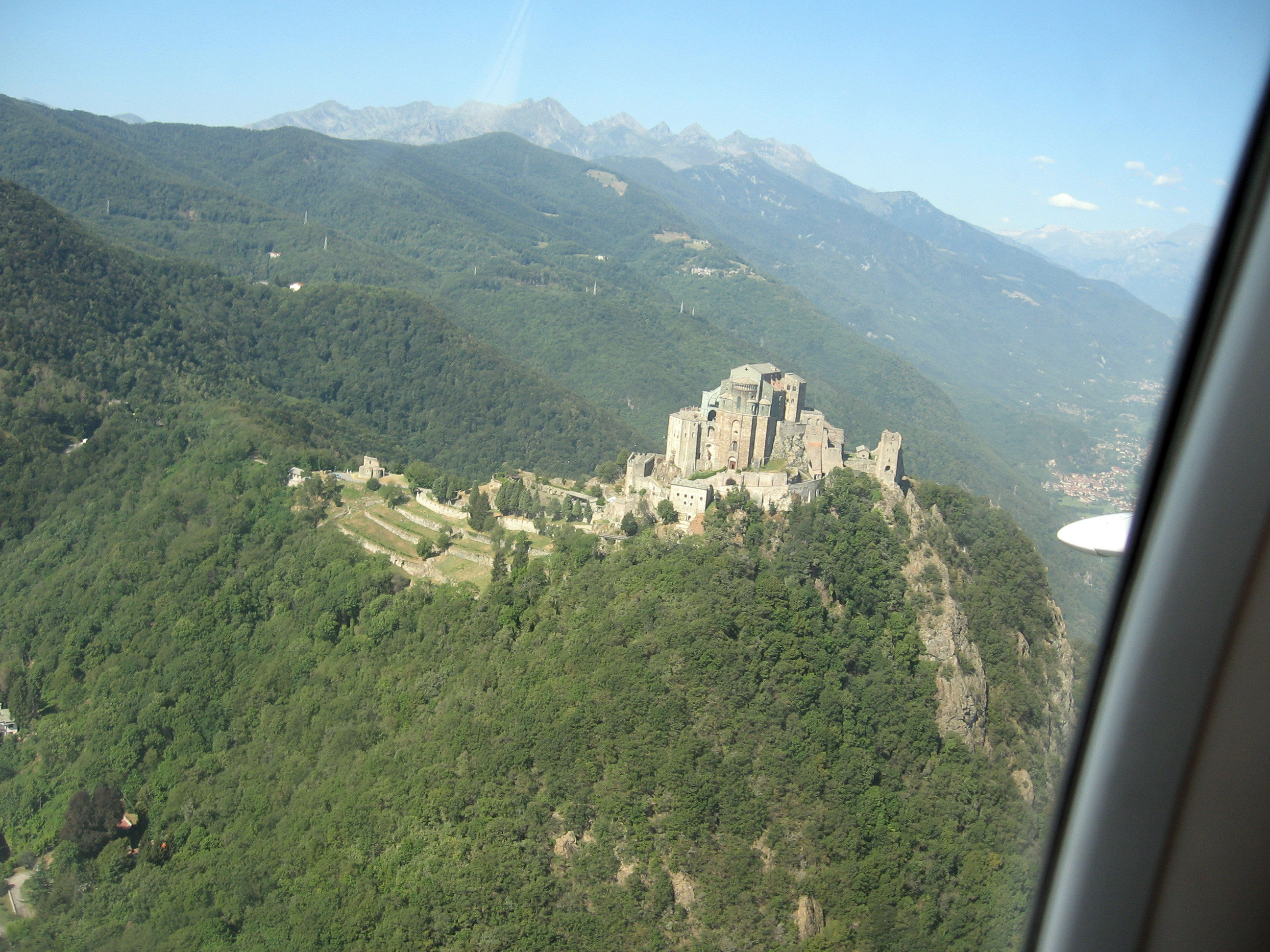 Aerial view of the Sacra di San Michele.